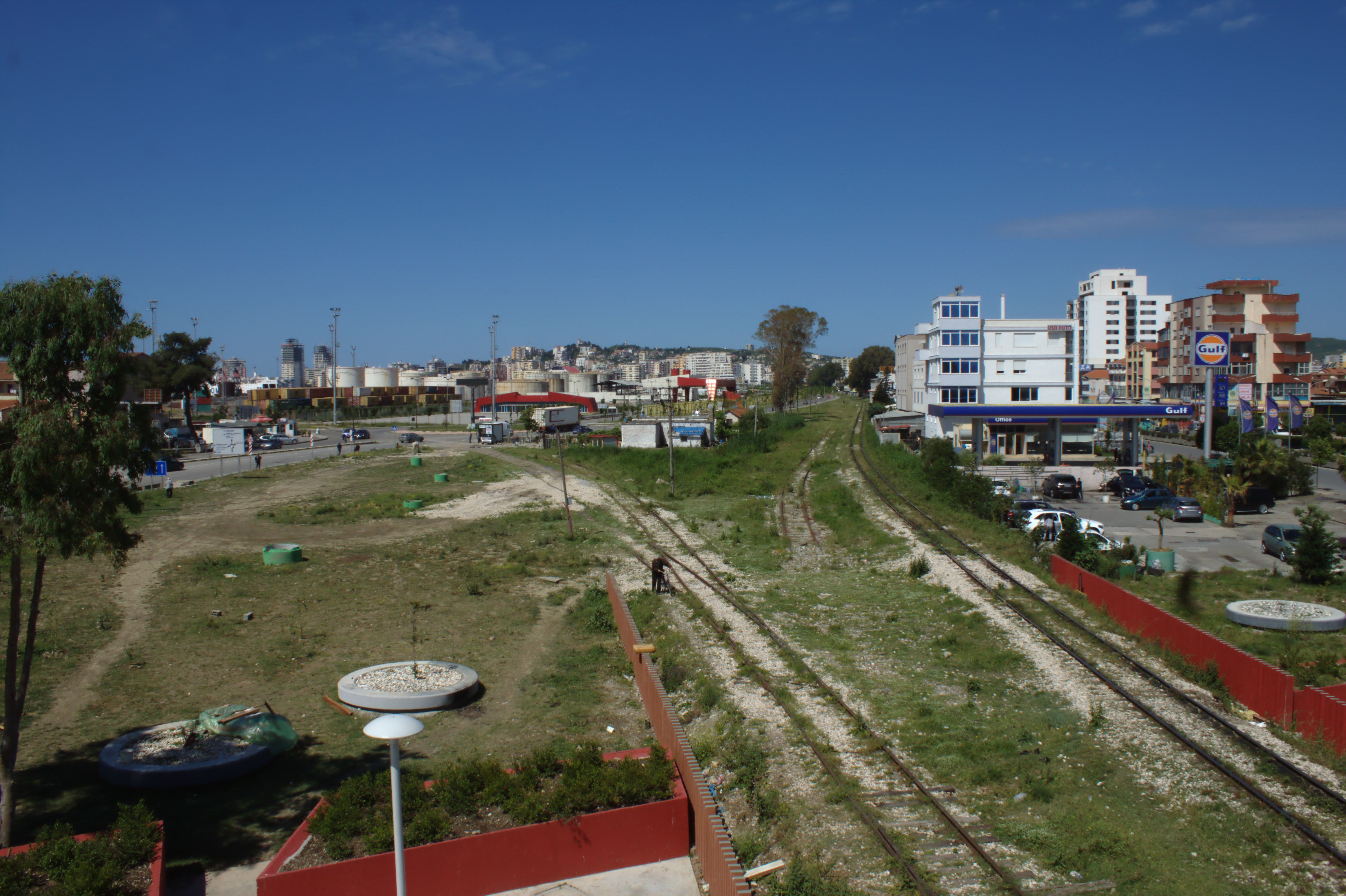 Durrës-Tirana Railway seen from an overpass near Rruga Adria and Rruga Pavaresia, Durrës, Albania